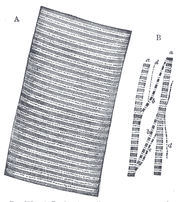 A. Portion of a medium-sized human muscular fiber. Magnified nearly 800 diameters. B. Separated bundles of fibrils, equally magnified. a, a. Larger, and b, b, smaller collections. c. Still smaller. d, d. The smallest which could be detached.